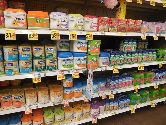 Infant Formula at Kroger